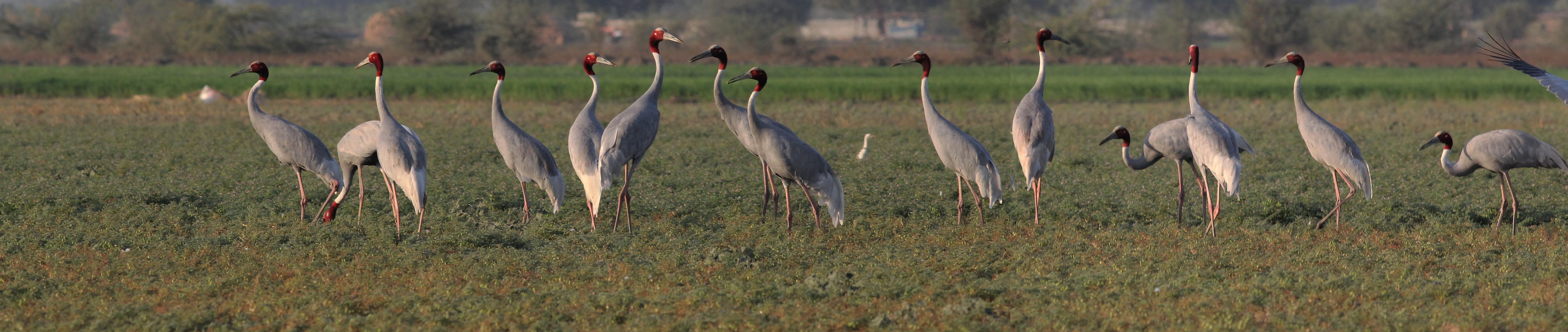 a group sarus in a field near ahmedabad ,India